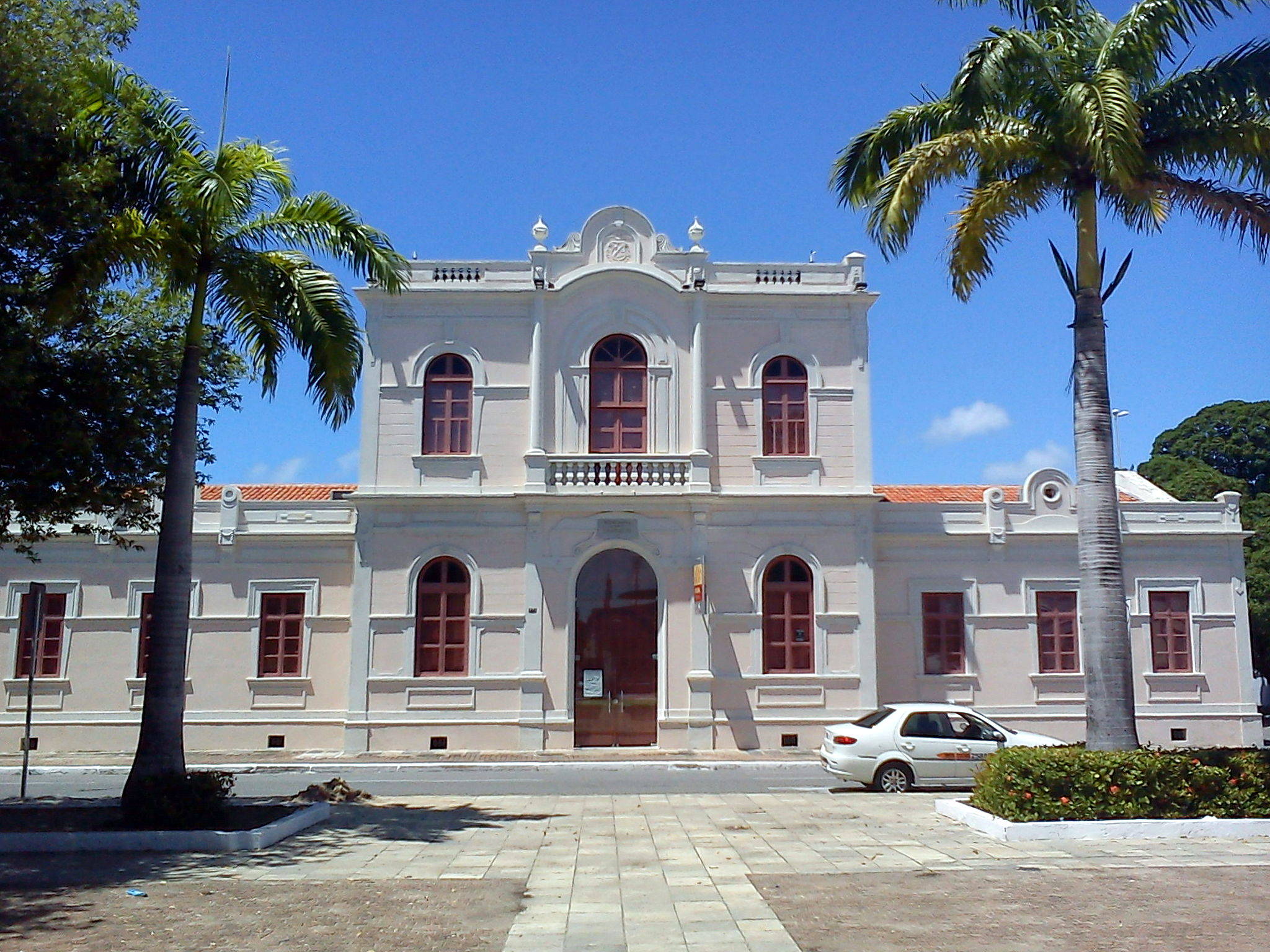 Alagoas Museum of Image and Sound, Maceio/AL.